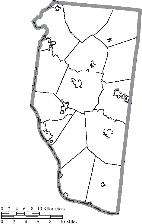 Map of the municipal and township boundaries of Clermont County, Ohio, United States, as of the 2000 census, with the location of the village of Chilo highlighted. Township borders are shown only in unincorporated areas in order to differentiate incorporated and unincorporated areas more clearly.